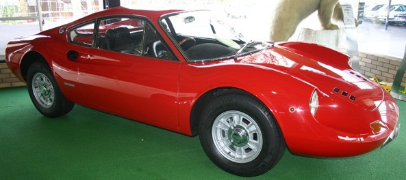 Dino 206 GT